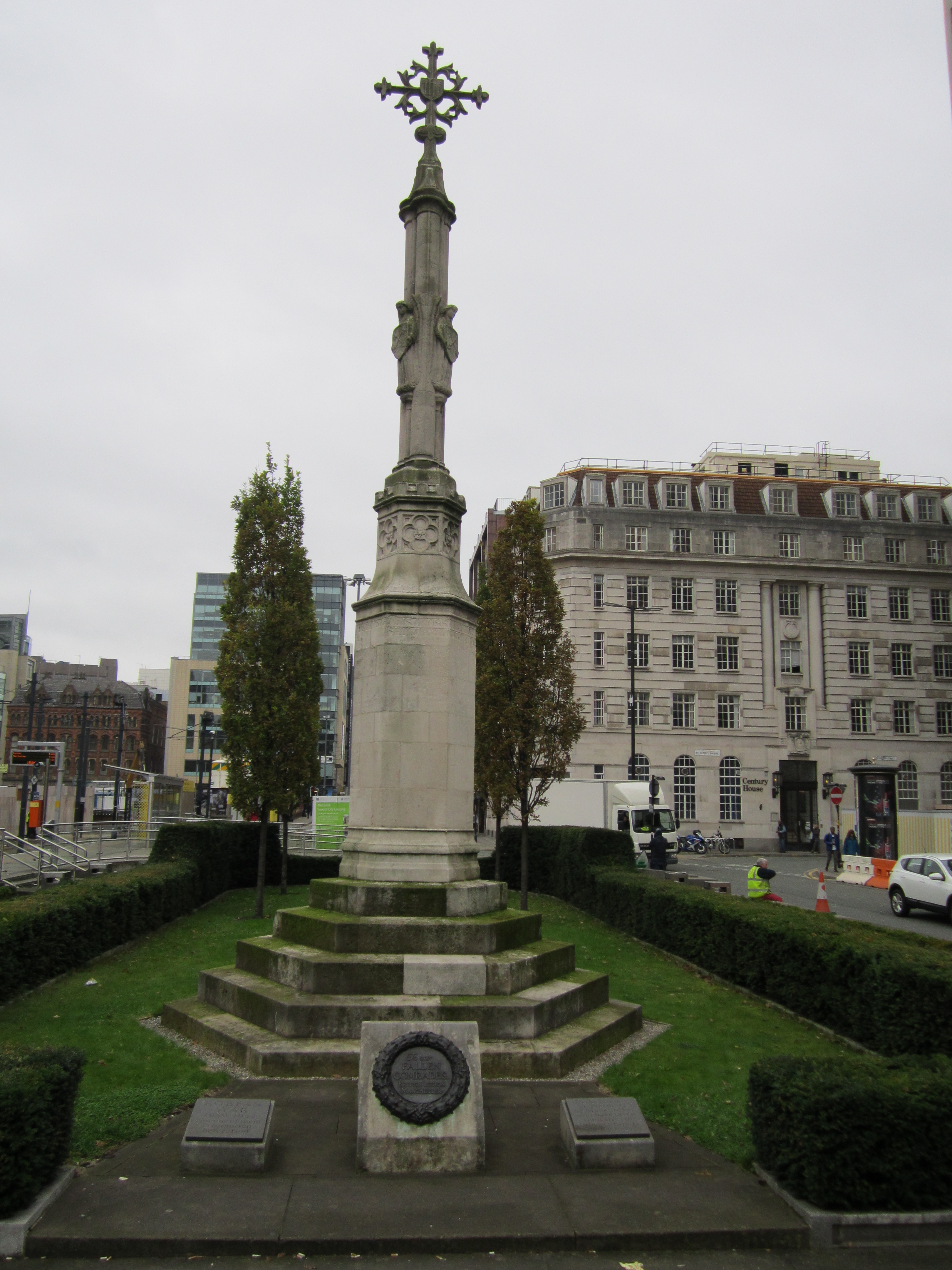 War memorial at St Peter's Square, Manchester, England.